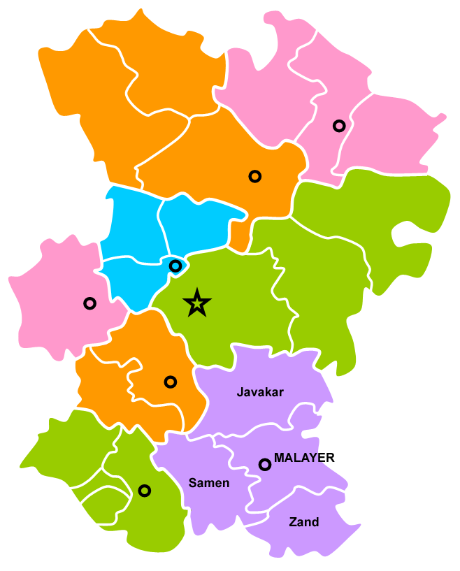 Malayer sharestan Hamedan province, Administrative map